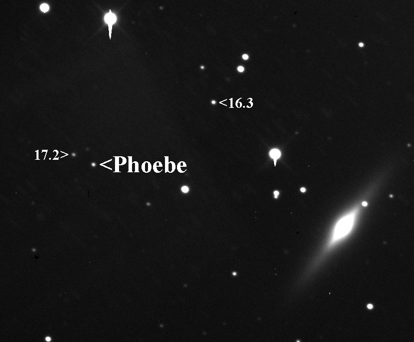 4 minute exposure of Saturn's moon Phoebe with a 24" telescope. Phoebe is apparent magnitude 16.3 in this image taken at 2010-03-09 11:30 UT. The star to the left of Phoebe is magnitude 17.2. Also visible is the galaxy NGC 4179 at apmag 12. During this photo the moon was 32% full and only 97 degrees away. JPL Solar System Simulator for Saturn at 2010-03-09 11:30 UT.